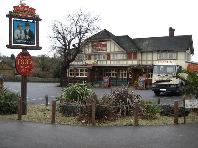 Enfield: Jolly Farmers Public House A McMullen's lorry is making a delivery to this tied house which is on the A110 Enfield Road at its junction with Links Side. McMullen's Brewery is in Hertford and the pub's website is here